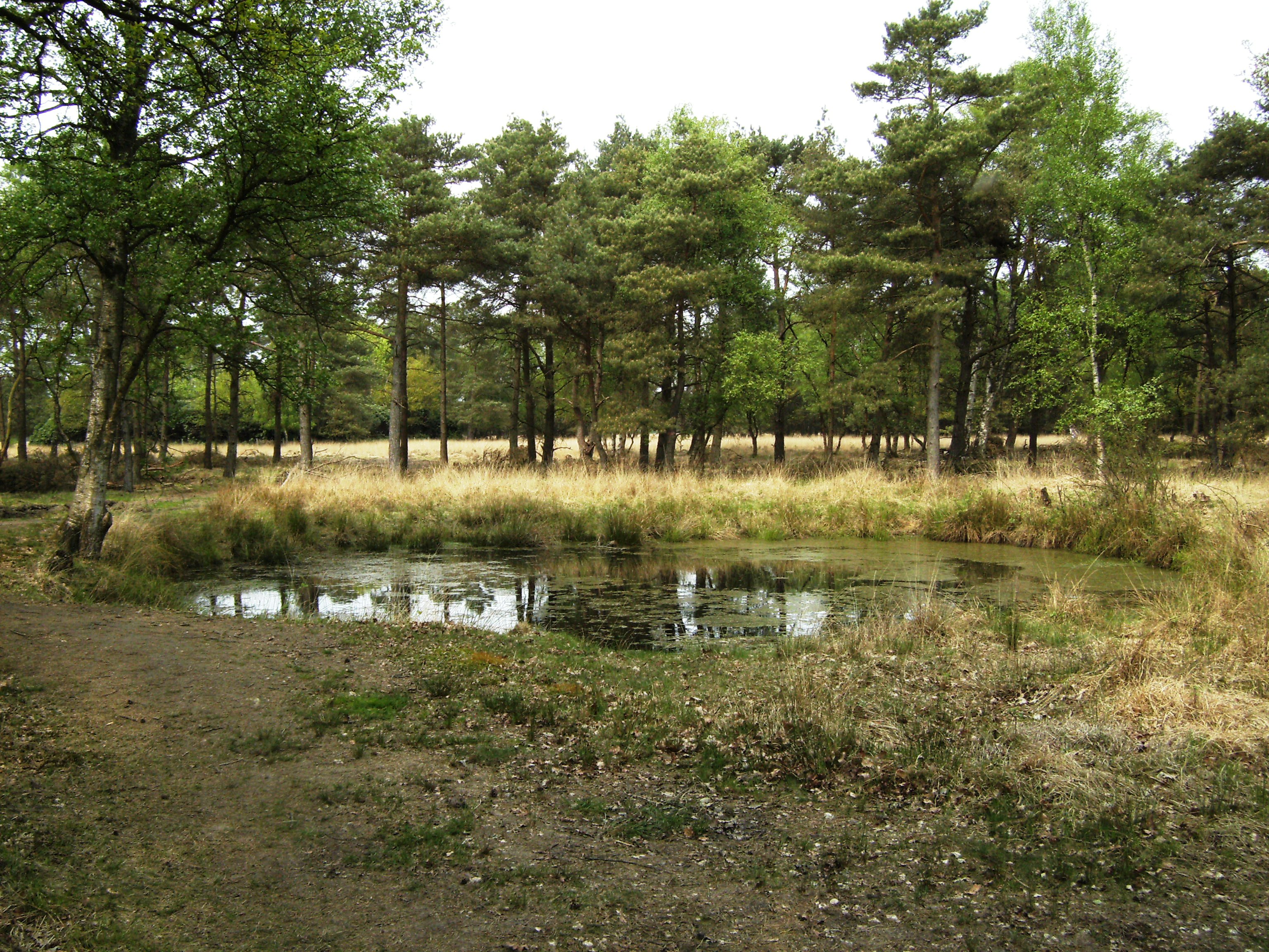 Nature reserve Boetelerveld